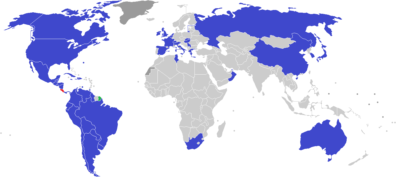 Map of the countries that have played at least one match against Costa Rica so far in the decade: Costa Rica Teams that have already faced Costa Rica Teams that have not faced Costa Rica during the decade, but are scheduled to do so in the future Non-FIFA team that has faced Costa Rica